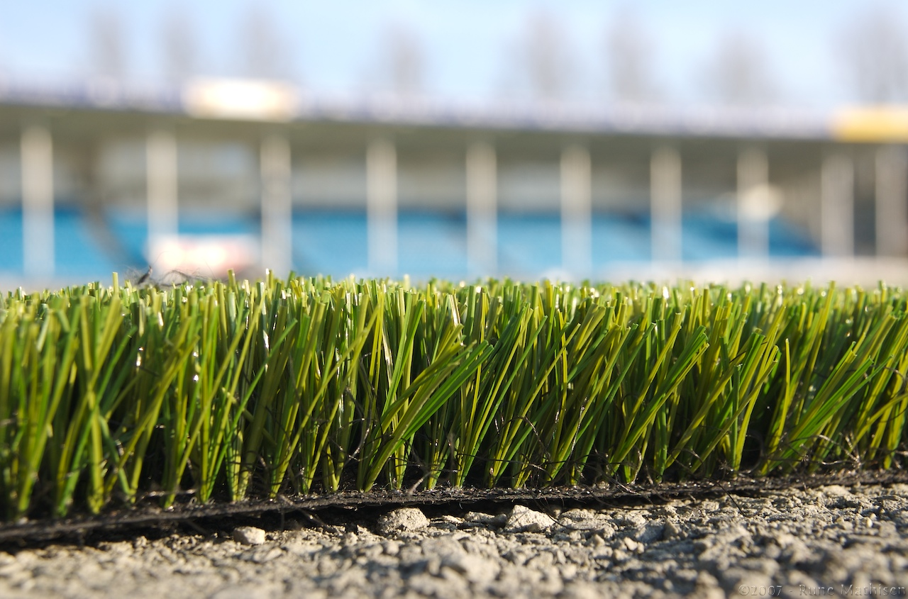 Slik ser det ut på nært hold. Please credit this photo "bitjungle" in the immediate vicinity of the image.